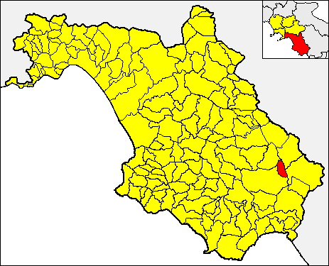 Locator map of the municipality of Buonabitacolo (red) within the Province of Salerno